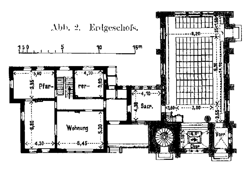 Plan of protestant church Konz-karthaus (Germany)